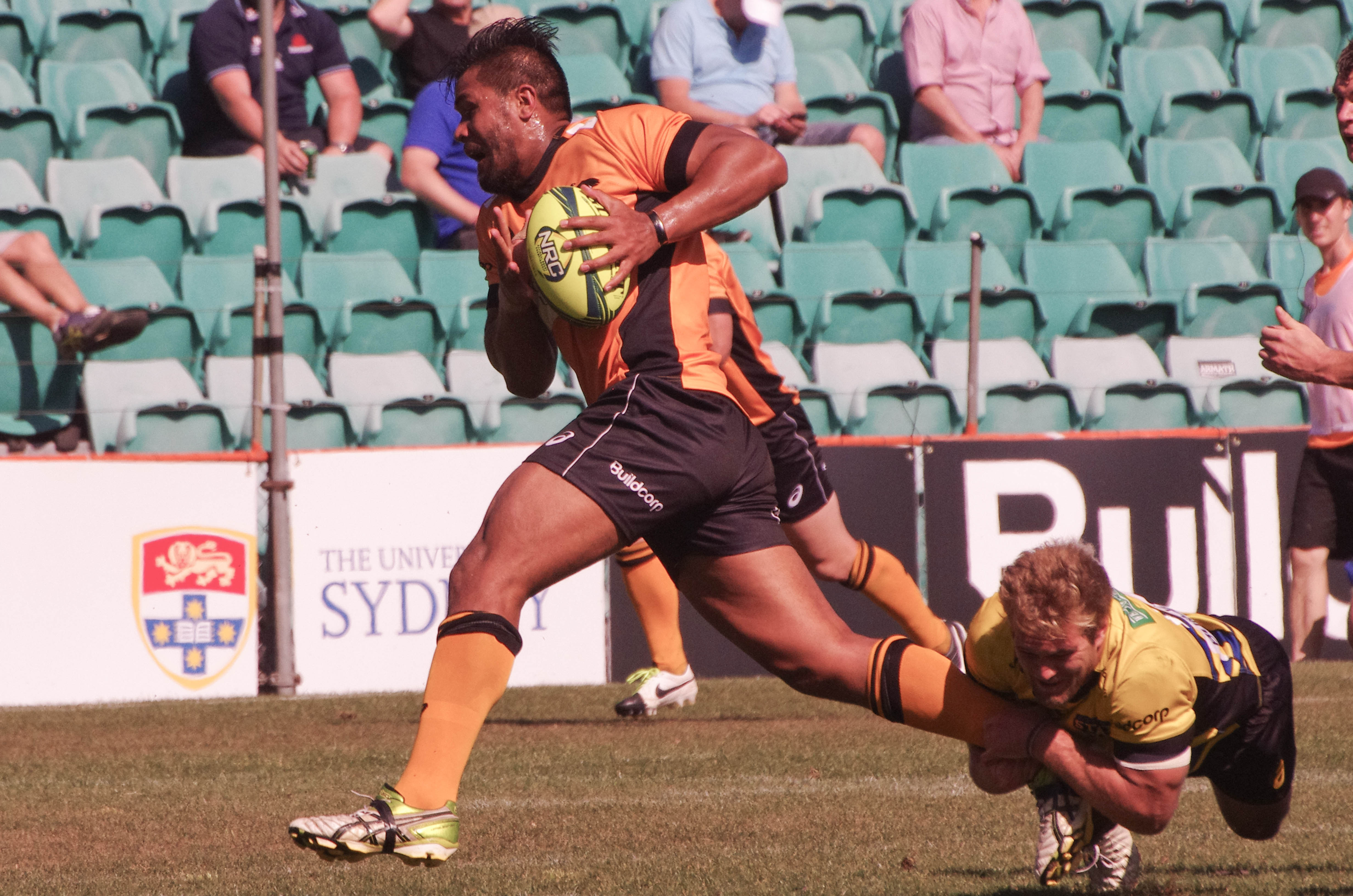 TALA GRAY